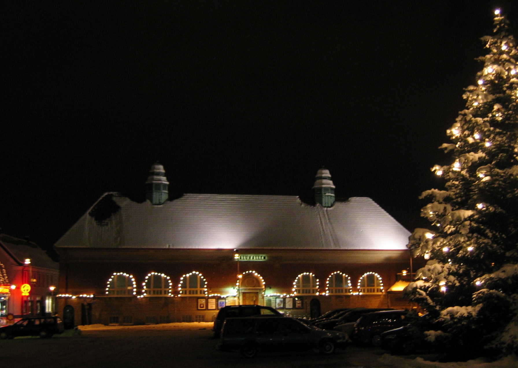 A Christmas decorated Lunds saluhall, a market hall at Mårtenstorget in the centre of Lund, built in 1909.